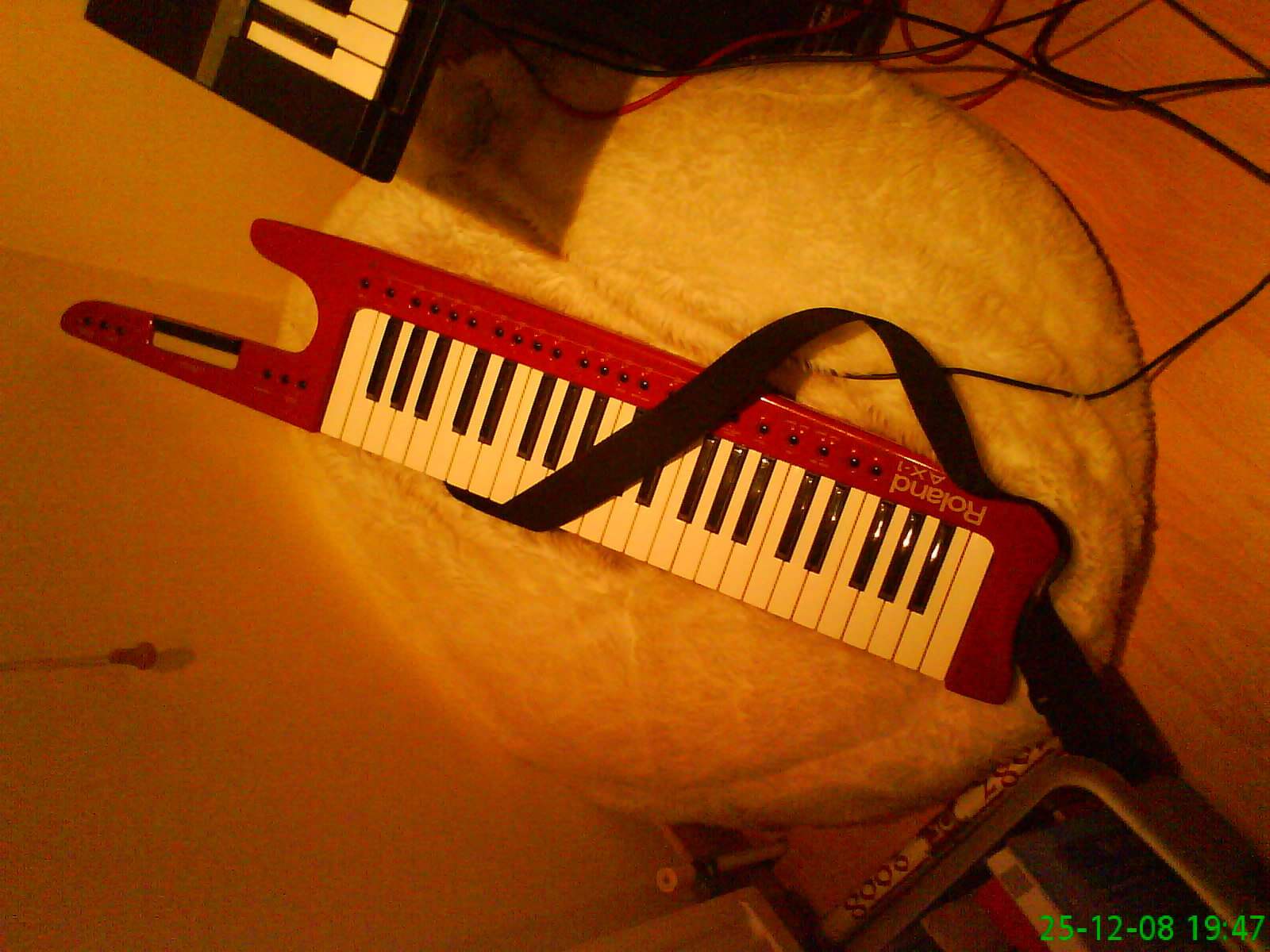 a picture of my Roland AX-1. I took the picture so feel free to download it, you all have my permission.